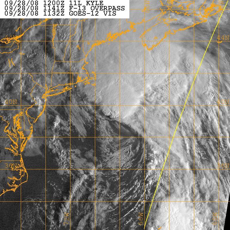 Satellite image in visible range of Hurricane Kyle moving toward Nova Scotia on Septembre 28th at 1141 UTC